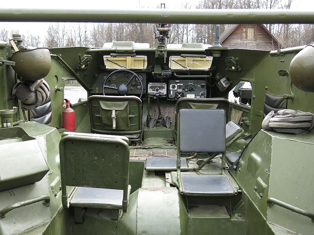 BTR-40 interior view, Moscow 2015